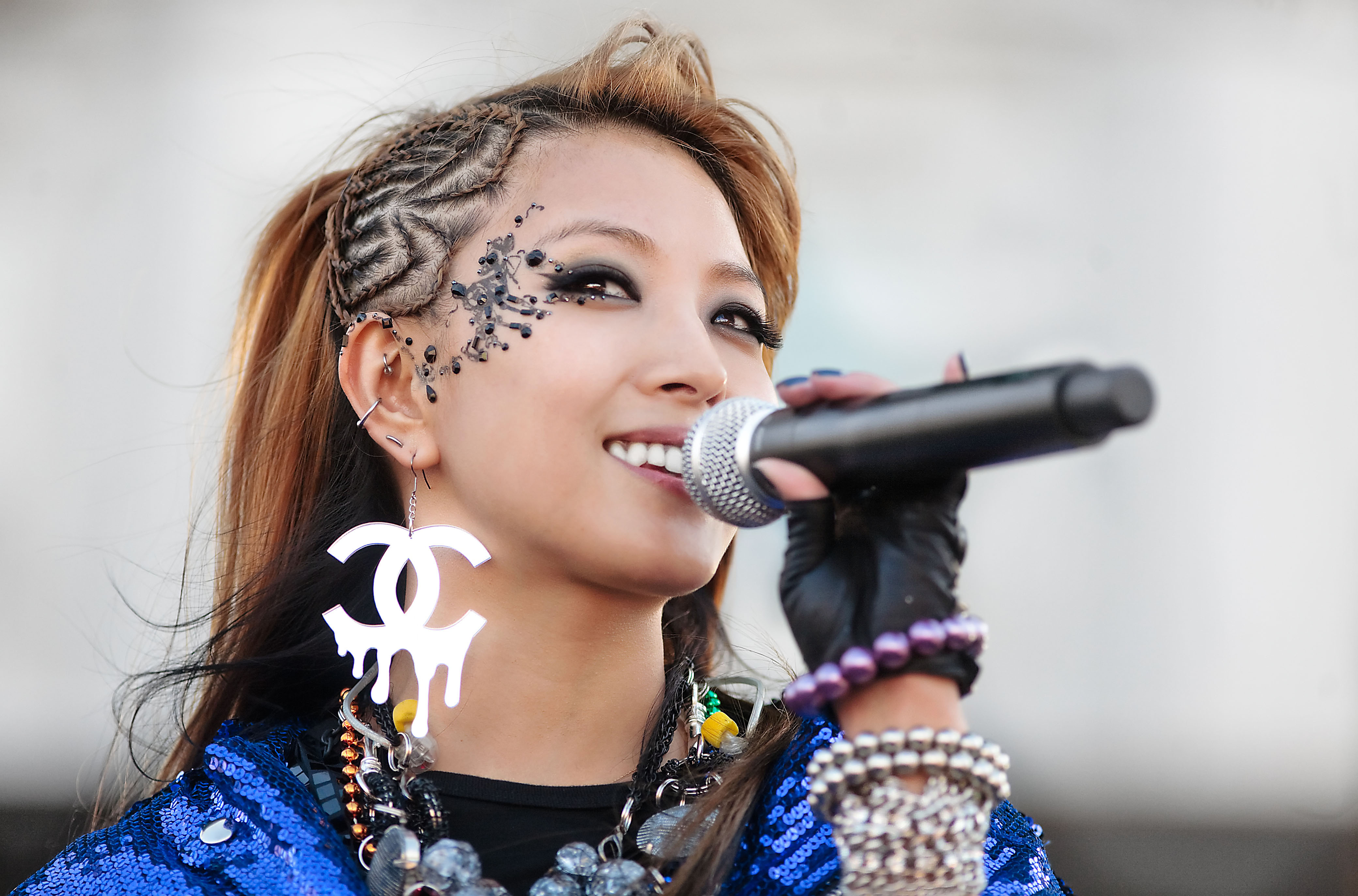 BoA perfoming at 2009 San Francisco Pride